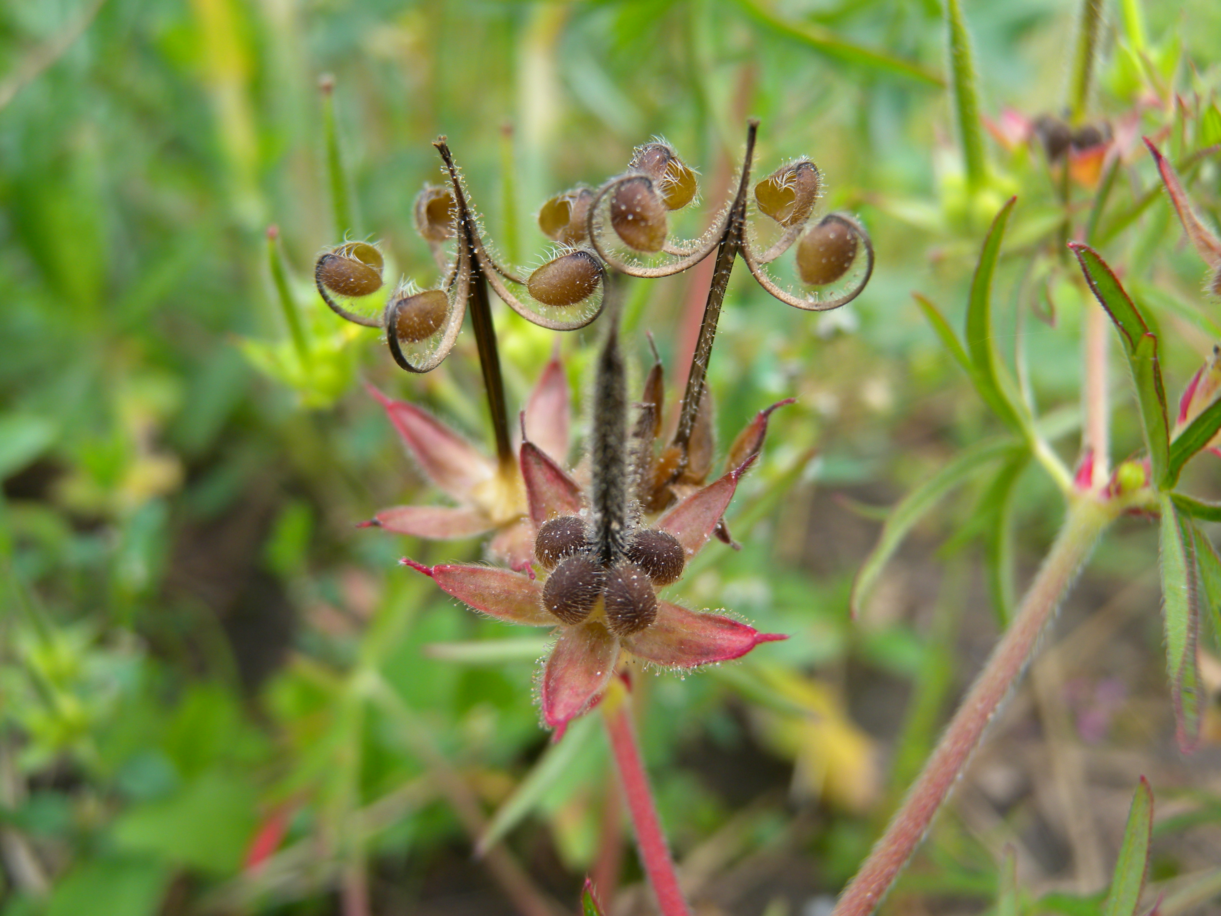 Fruits of Geranium dissectum (Geraniaceae); edge of a field in Burgäschi, Canton of Solothurn, Switzerland